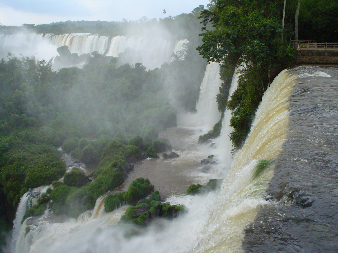 View from the high side, Argentina. Author: Carlos Ponte